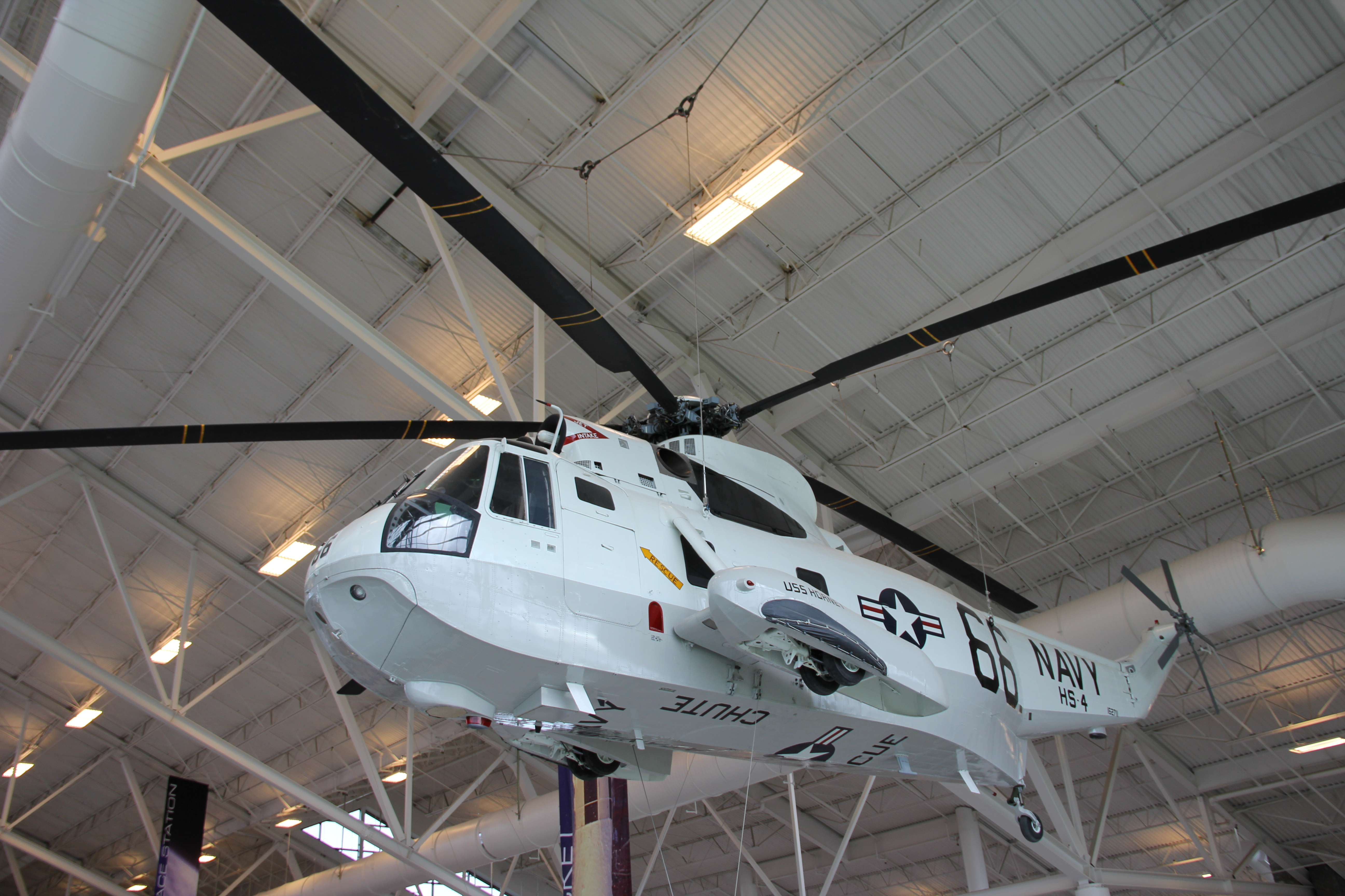 Sikorsky SH-3 Sea King in markings of Navy Helicopter Anti-Submarine Squadron Four (HS-4)